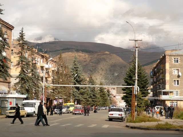 Streets of Vanadzor.